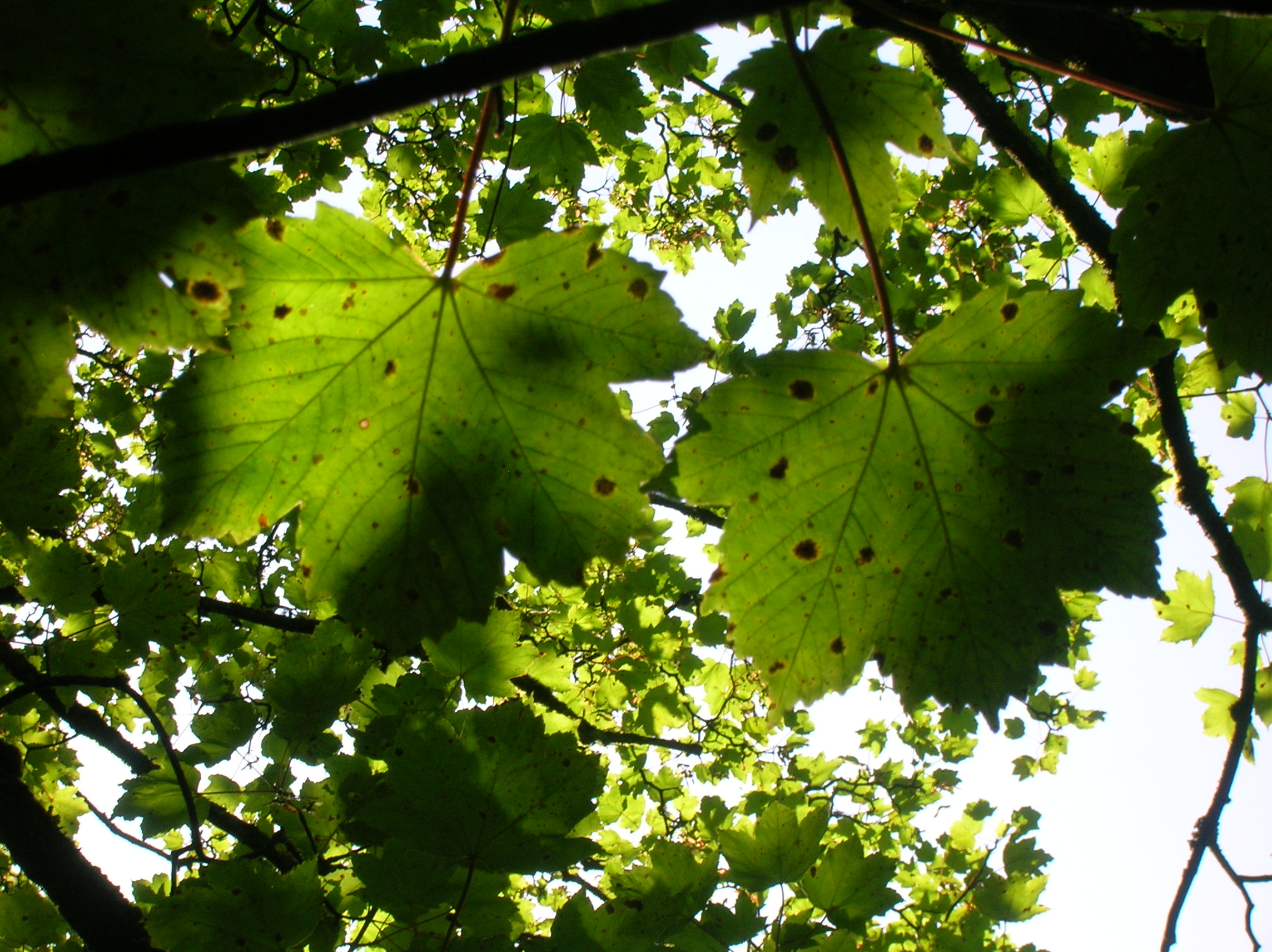 Tar spot fungus (Rhytisma acerinum) on Sycamore Maple leaves. Lynn Glen, Dalry, Scotland.